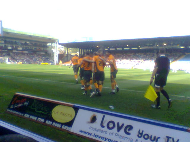 Plymouth Argyle celebrate Paul Gallagher's opening goal at Crystal Palace's Selhurst Park Stadium. Taken 20 September 2008.